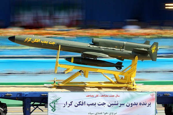 A HESA Karrar UAV during Iran's "Sacred Defense Week 2010" with a Mk. 82 bomb mounted on the centerline.